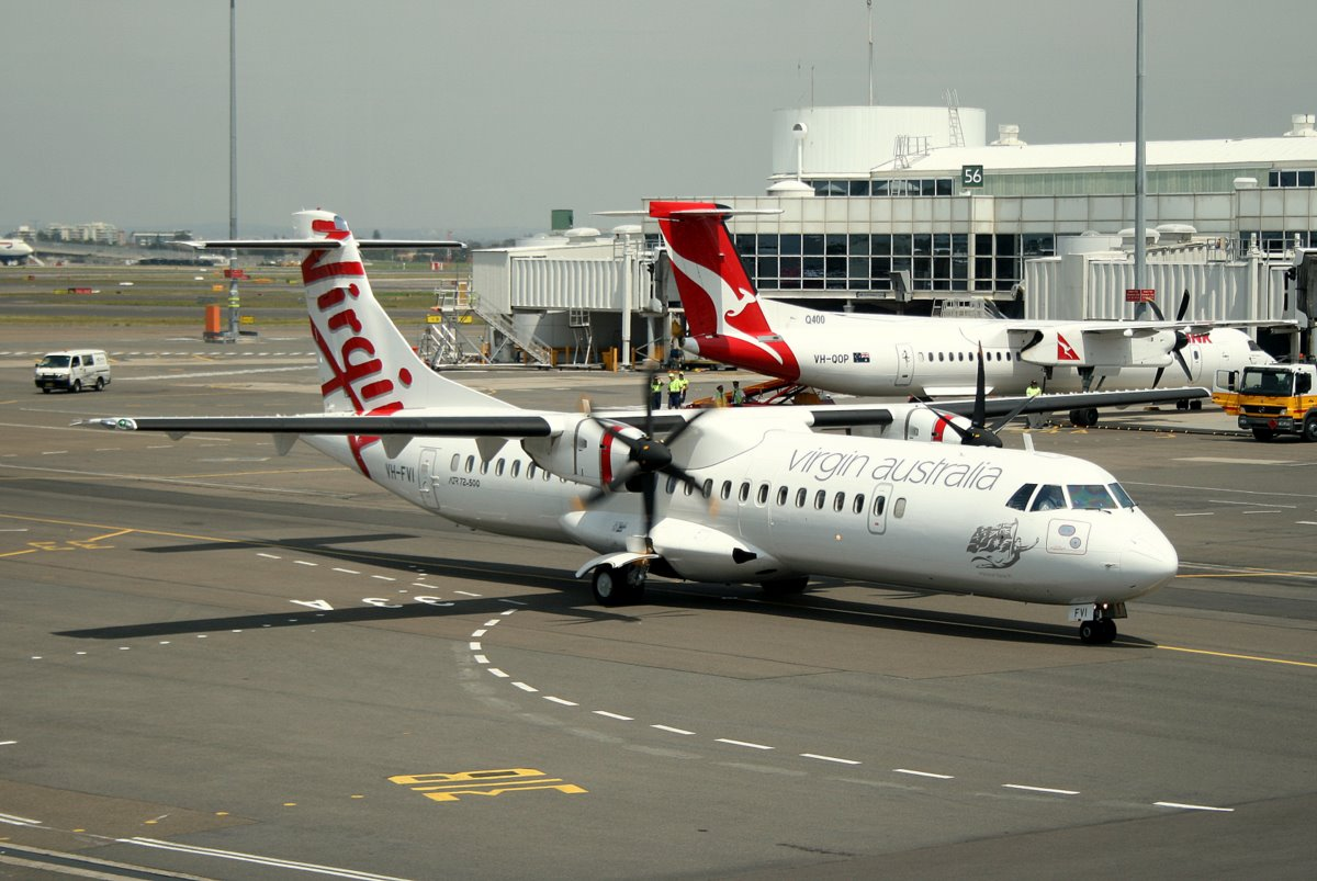 Virgin Australia's ATR 72 turboprop aircraft are operated on its behalf by Skywest Airlines under a wet lease agreement. The aircraft seen here is named Mission Beach and is the second of up to 18 ATR 72s to be built for Skywest. Digital image of VH-FVI taken by YSSYguy on 22 October 2011 at Sydney Airport and uploaded for use in the Virgin Australia article. Image edited with Picasa software. YSSYguy (talk) 11:04, 26 October 2011 (UTC)